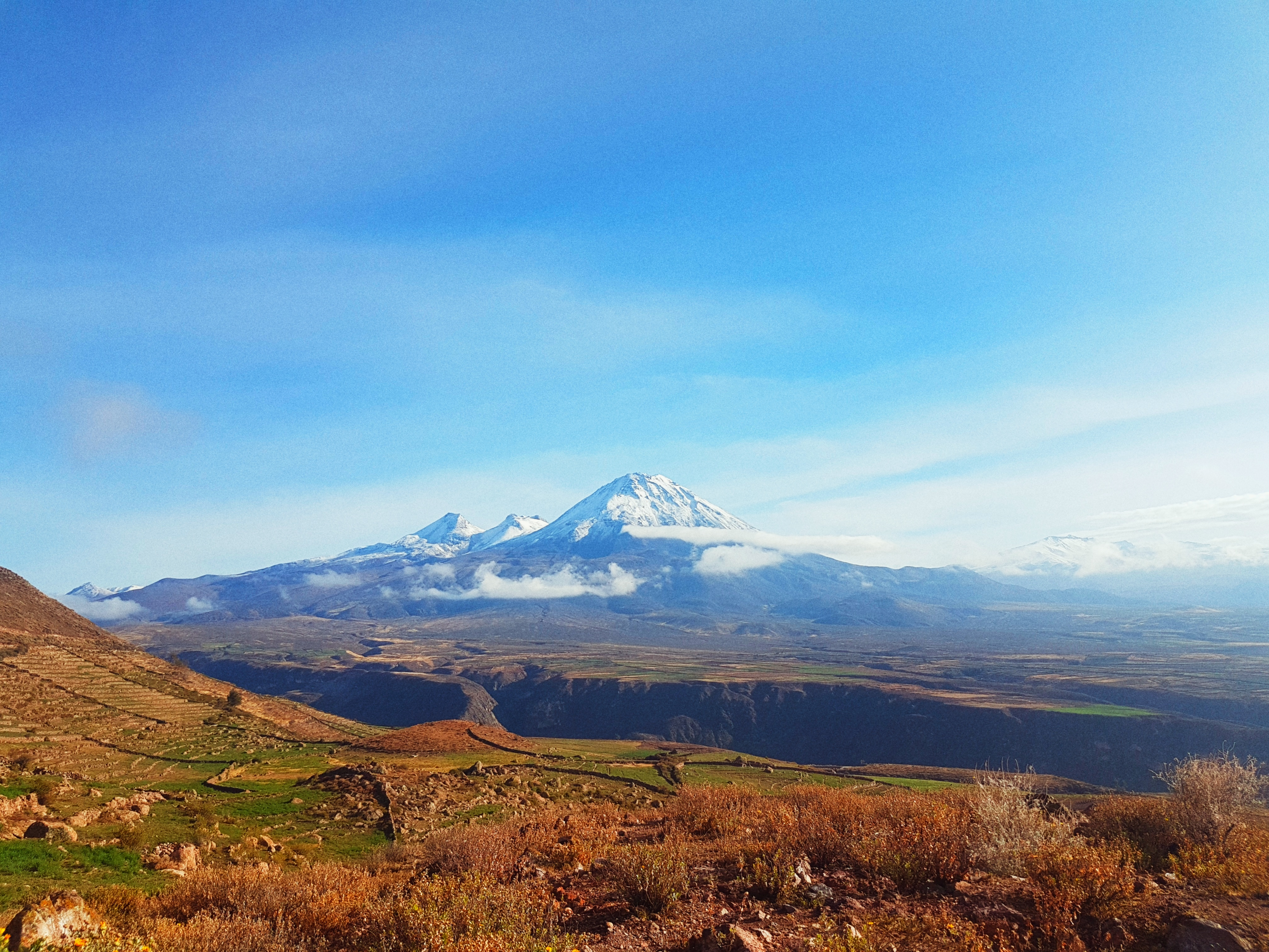 Impressive Yucamani Volcano